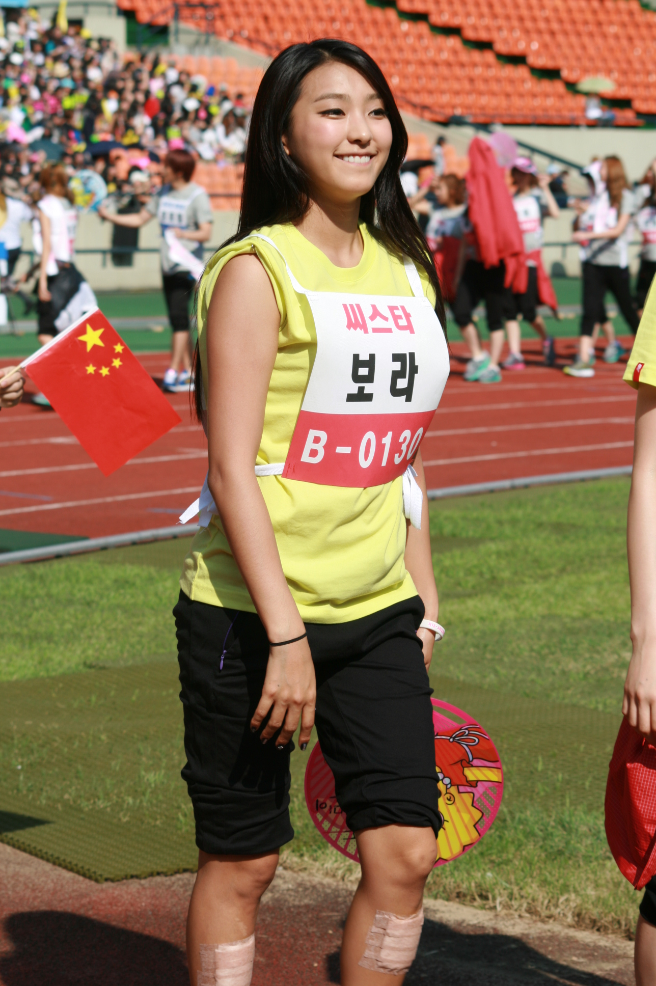 Yoon Bo-ra at ISAC 2011